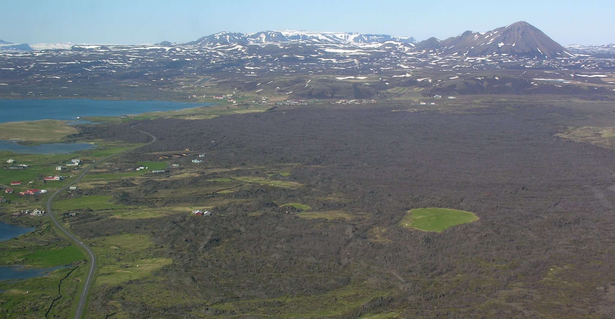 Aerial View of Reykjalið